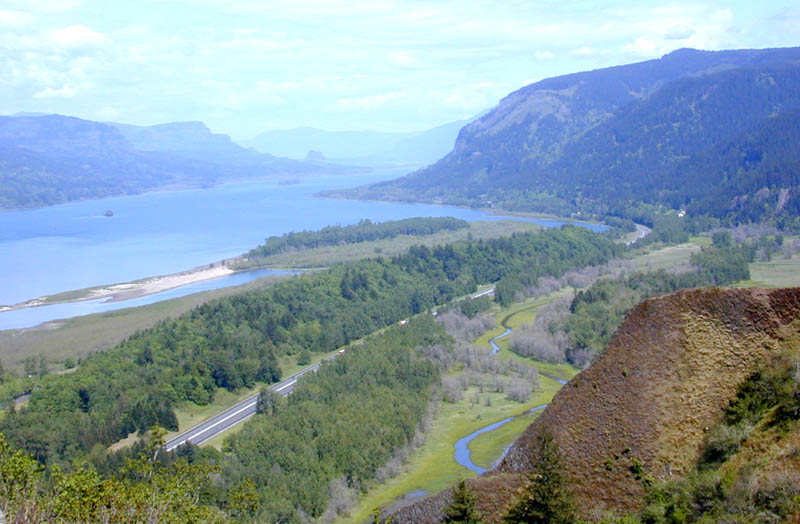 Looking east up the Columbia River Gorge from Crown Point, Oregon showing scenic I-84 along the river below; photographed April 28, 2004 by Eric Guinther.